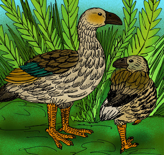 Reconstruction of the Maui Nui Moa-nalo, Thambetochen chauliodous, and Ptaiochen pau from the Late Pleistocene. (C) Stanton F. Fink